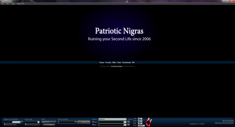 Shoopedlife Screenshot